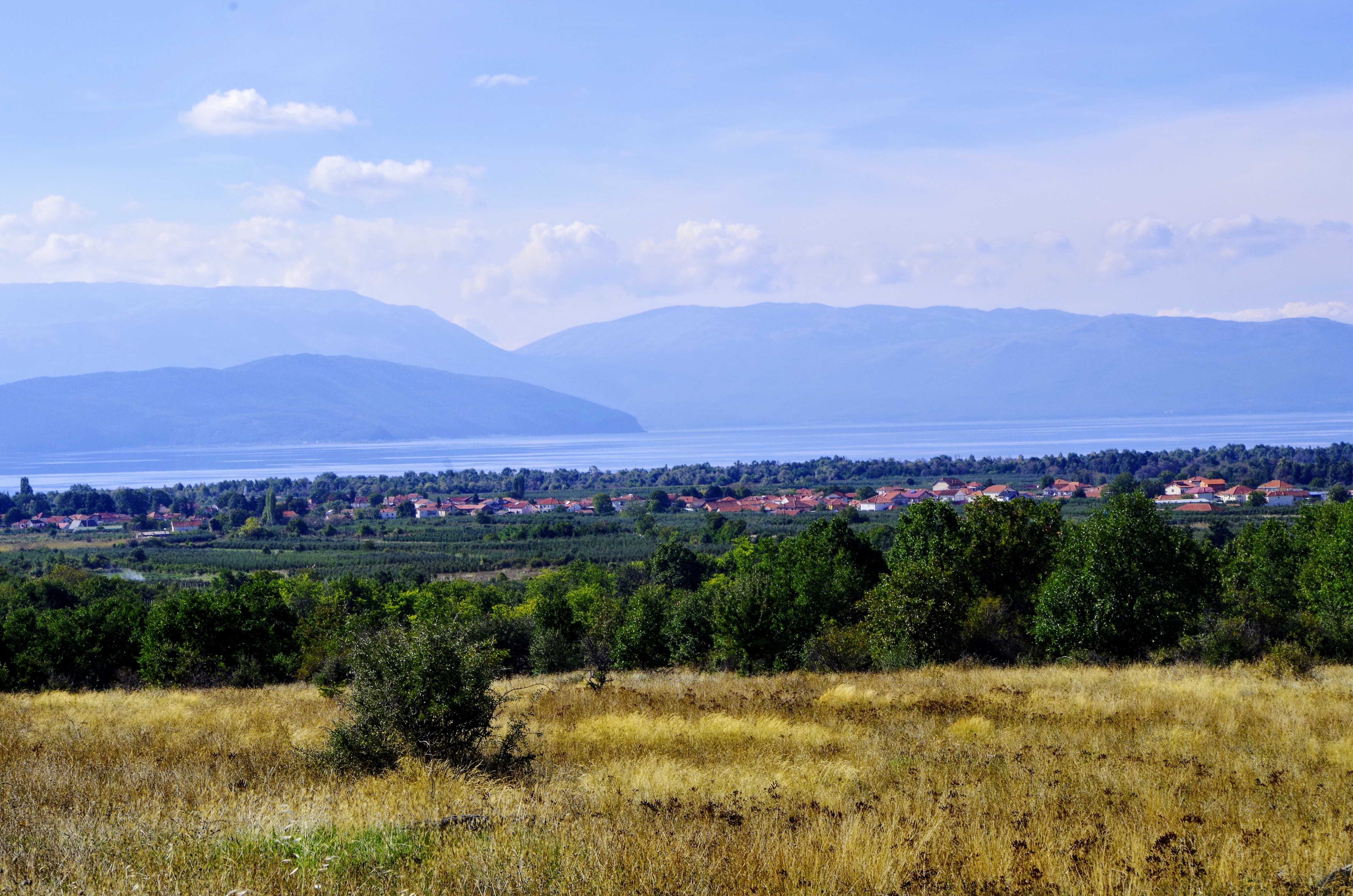 View of the village Nakolec